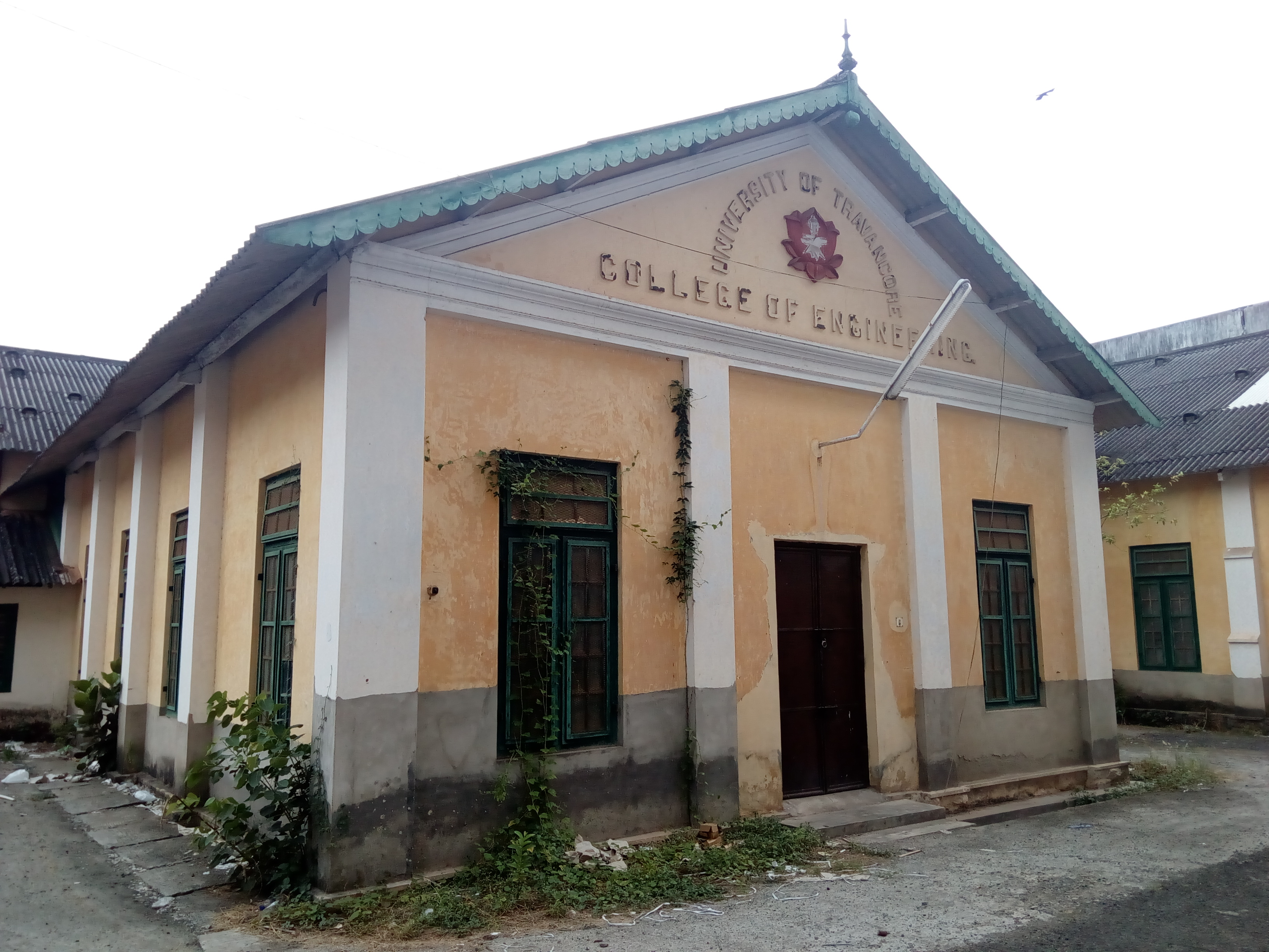 College of Engineering, Trivandrum